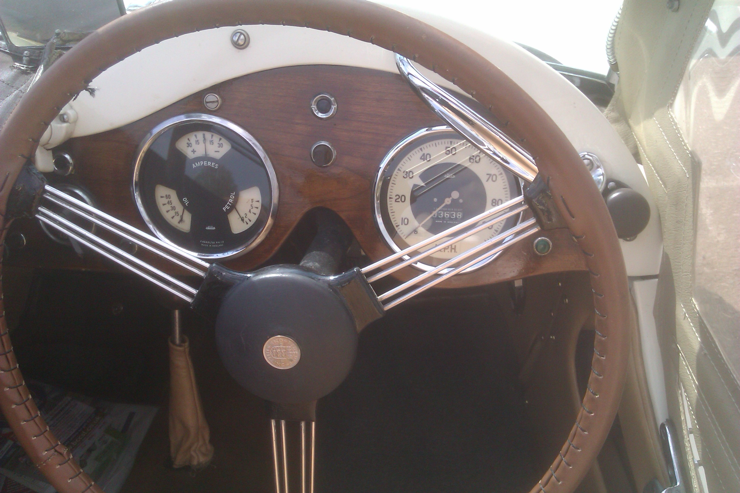 Singer SM Roadster Series 4AD 1953 dashboard Footman James Bristol Classic Car Show 20th April 2013